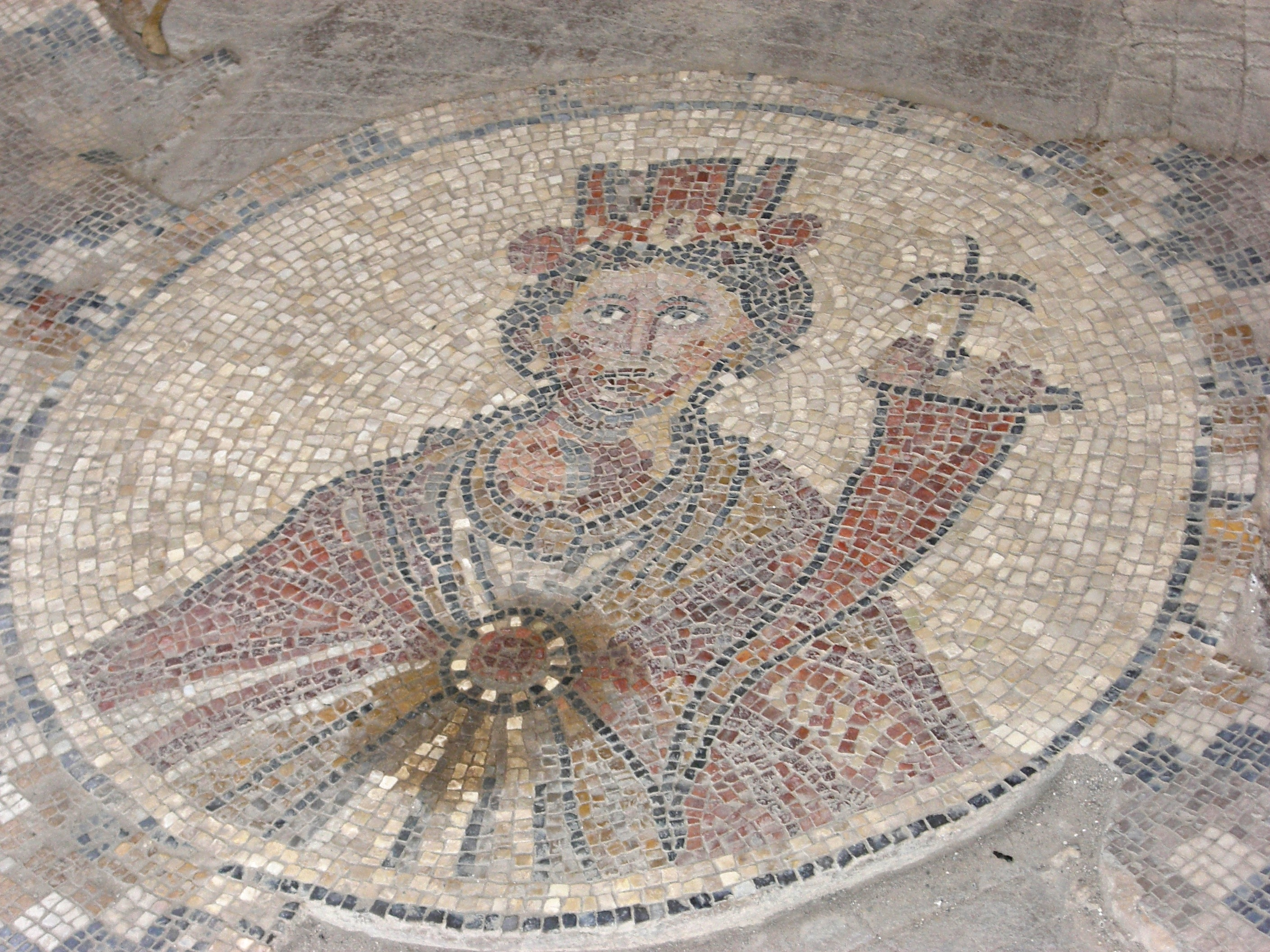 Mosaic of Ticha, goddess of Bet She'an. Wearing a crown with the town's walls, and holding a Cornucopia, with a Phoenix tree in it.